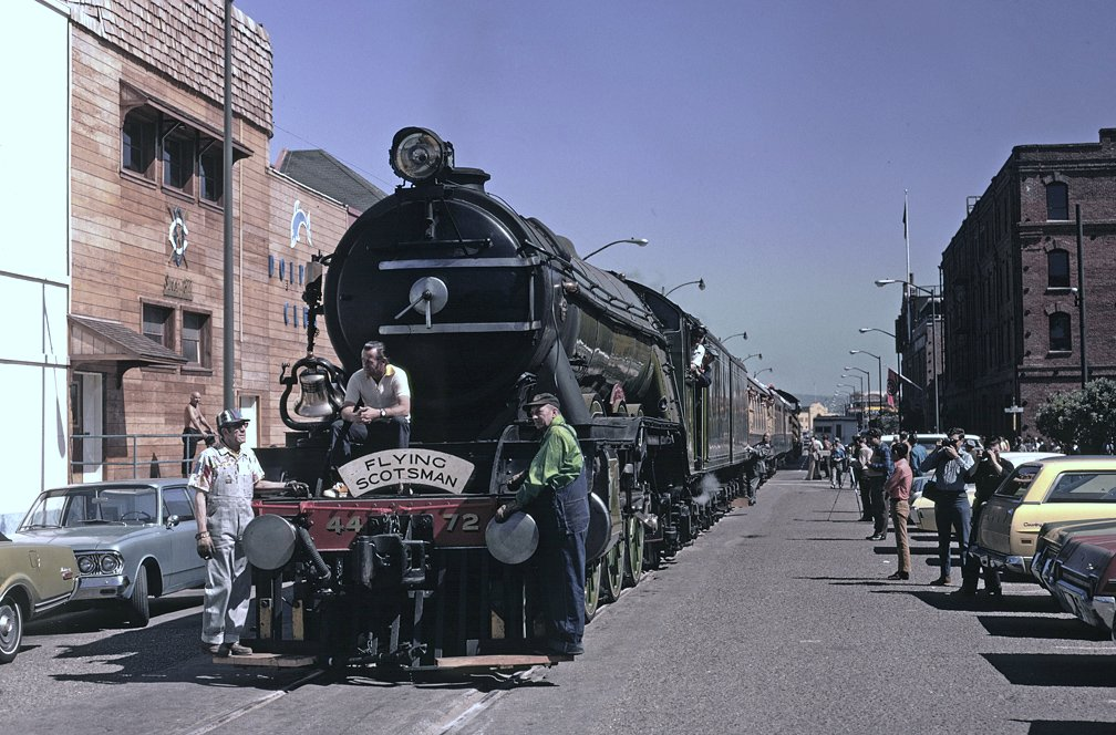 It was opening day for the short lived operation of Alan Pegler's #4472, The Flying Scotsman along San Francisco's Fisherman's Wharf. Seen running on Jefferson St., Pegler is in the engineers seat and riding the tender is Joseph Silva, manager of the State Belt RR.